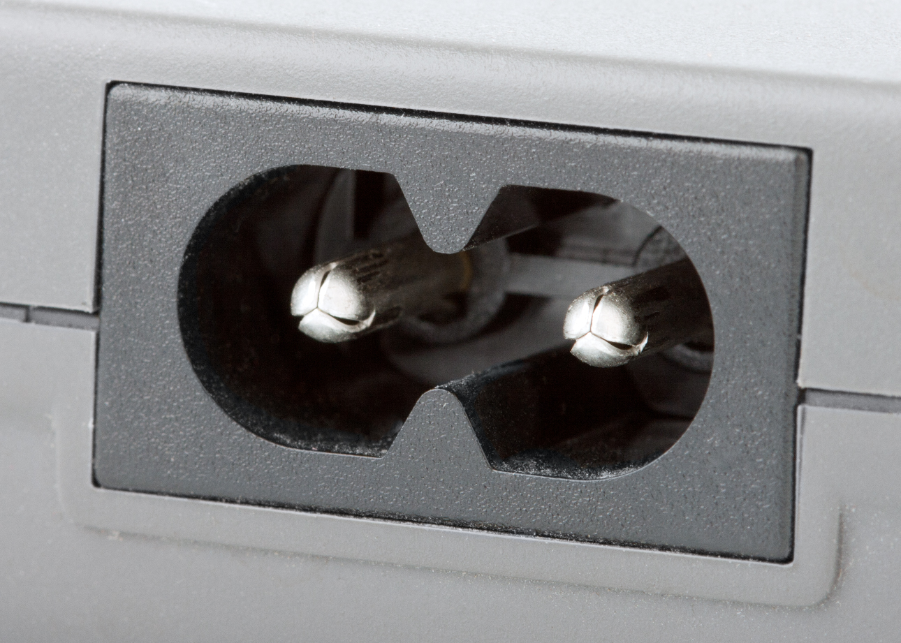 IEC 60320 C8 connector